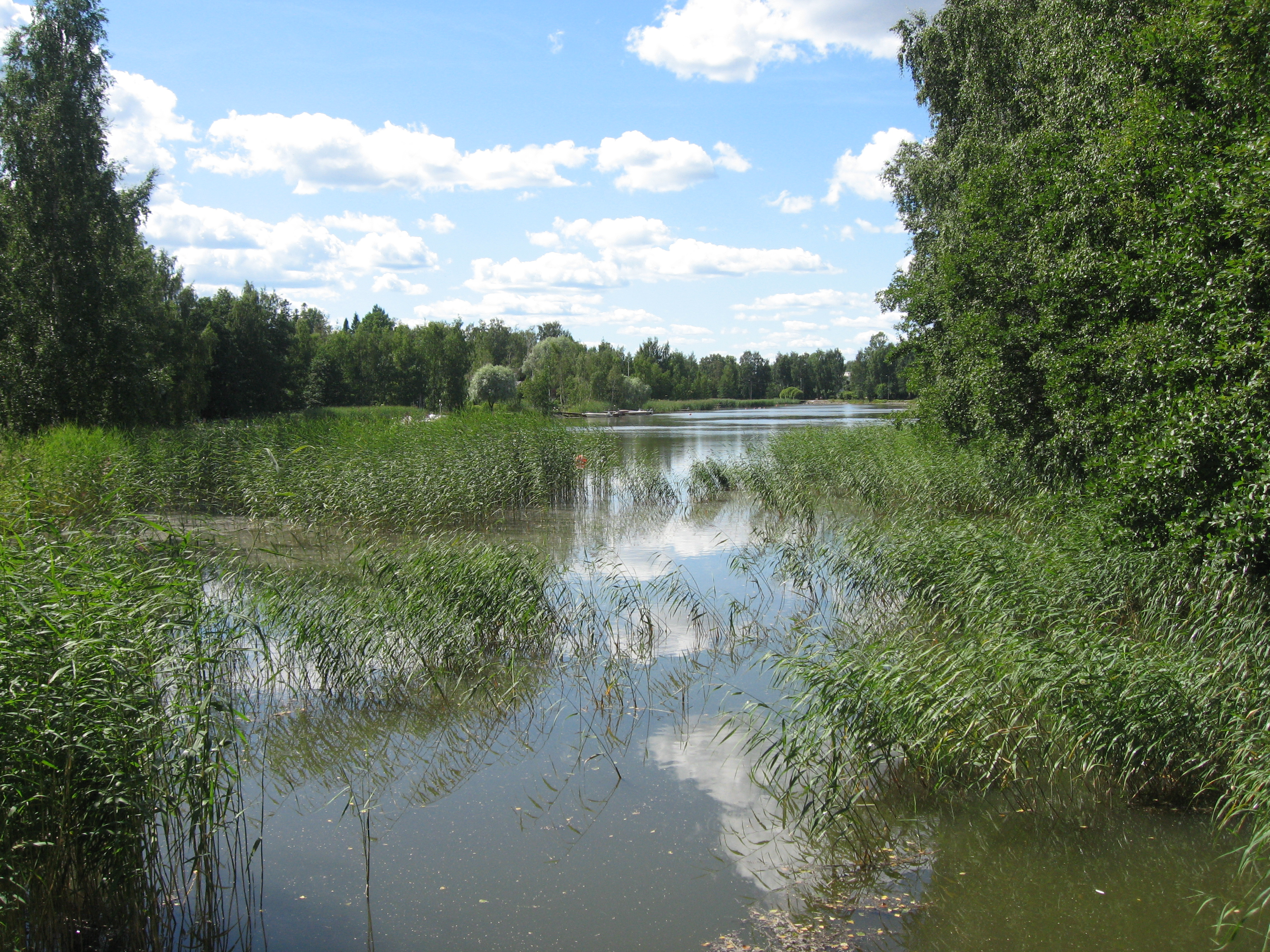 This image is from Finland, Helsinki, Roihuvuori gulf named Porolahti